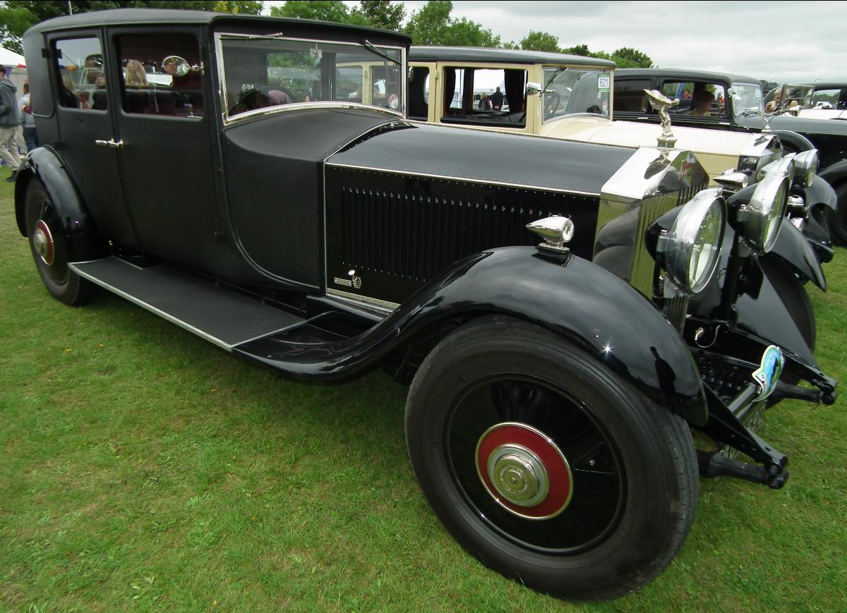 Rolls-Royce short-chassis Phantom II 7.7 litre Weymann saloon body by H J Mulliner This body retains the original fabric covering